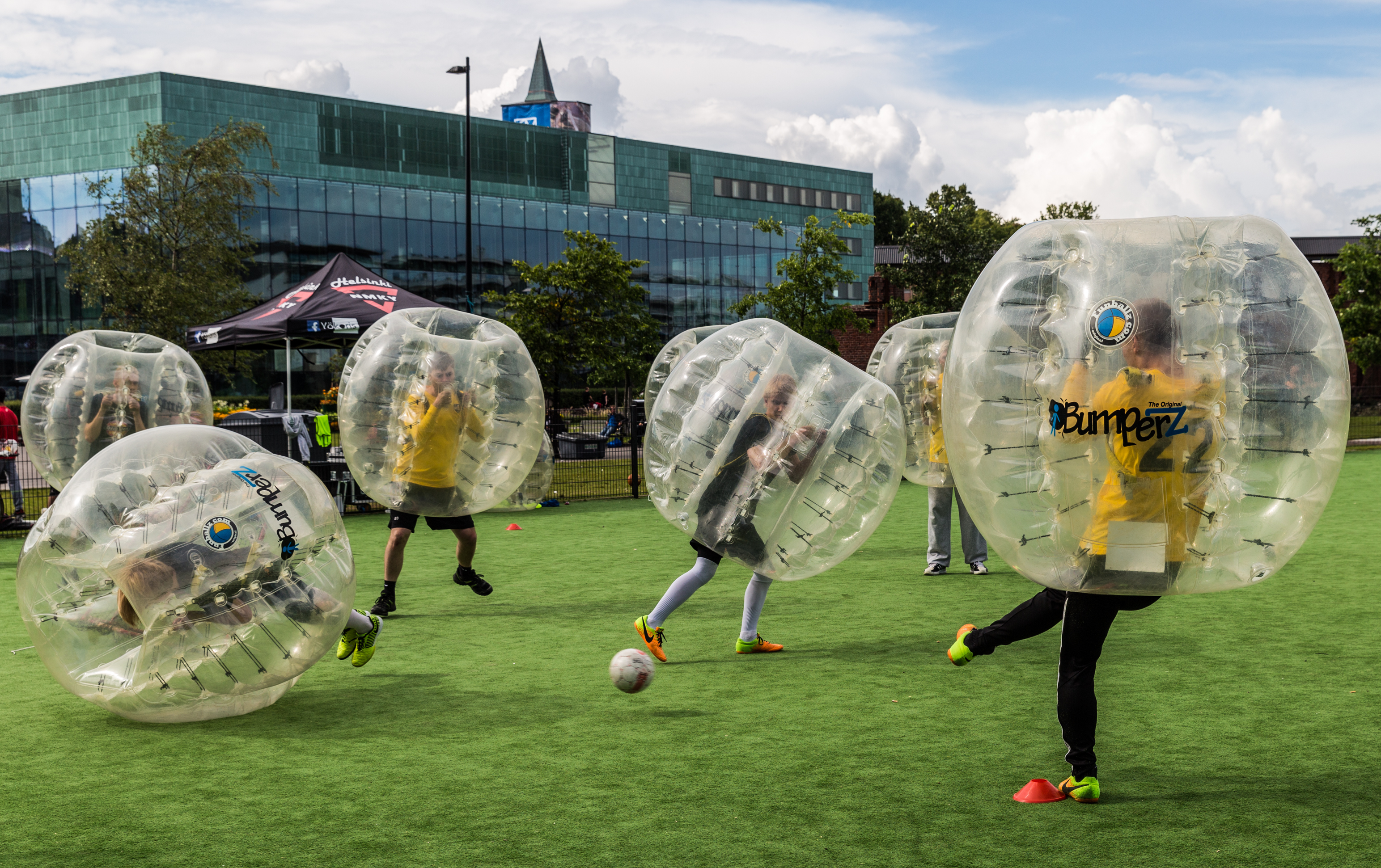 Bubble Football in Helsinki, Finland